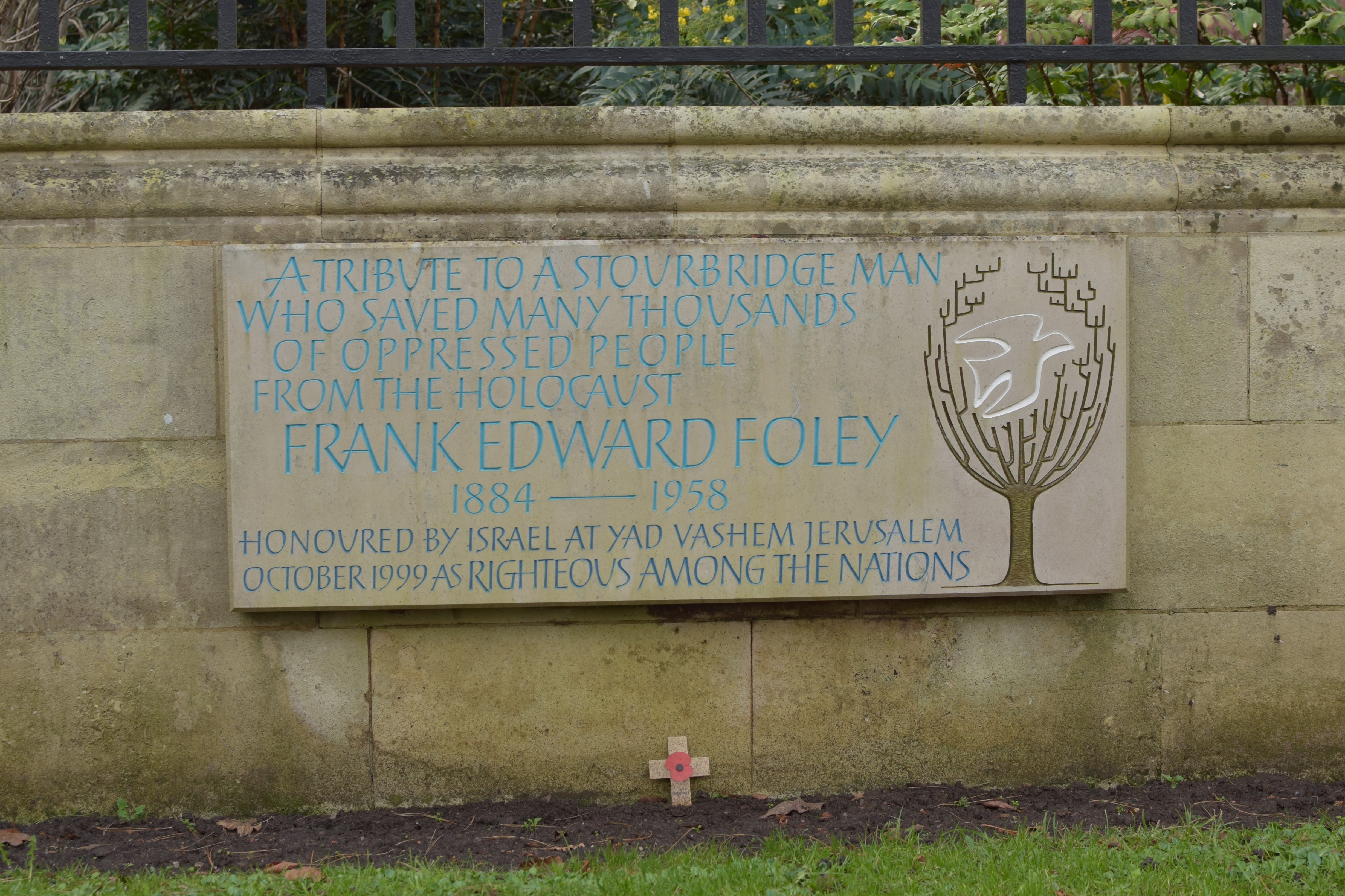 Frank Foley's commemorative plaque at Mary Stevens Park, Stourbridge